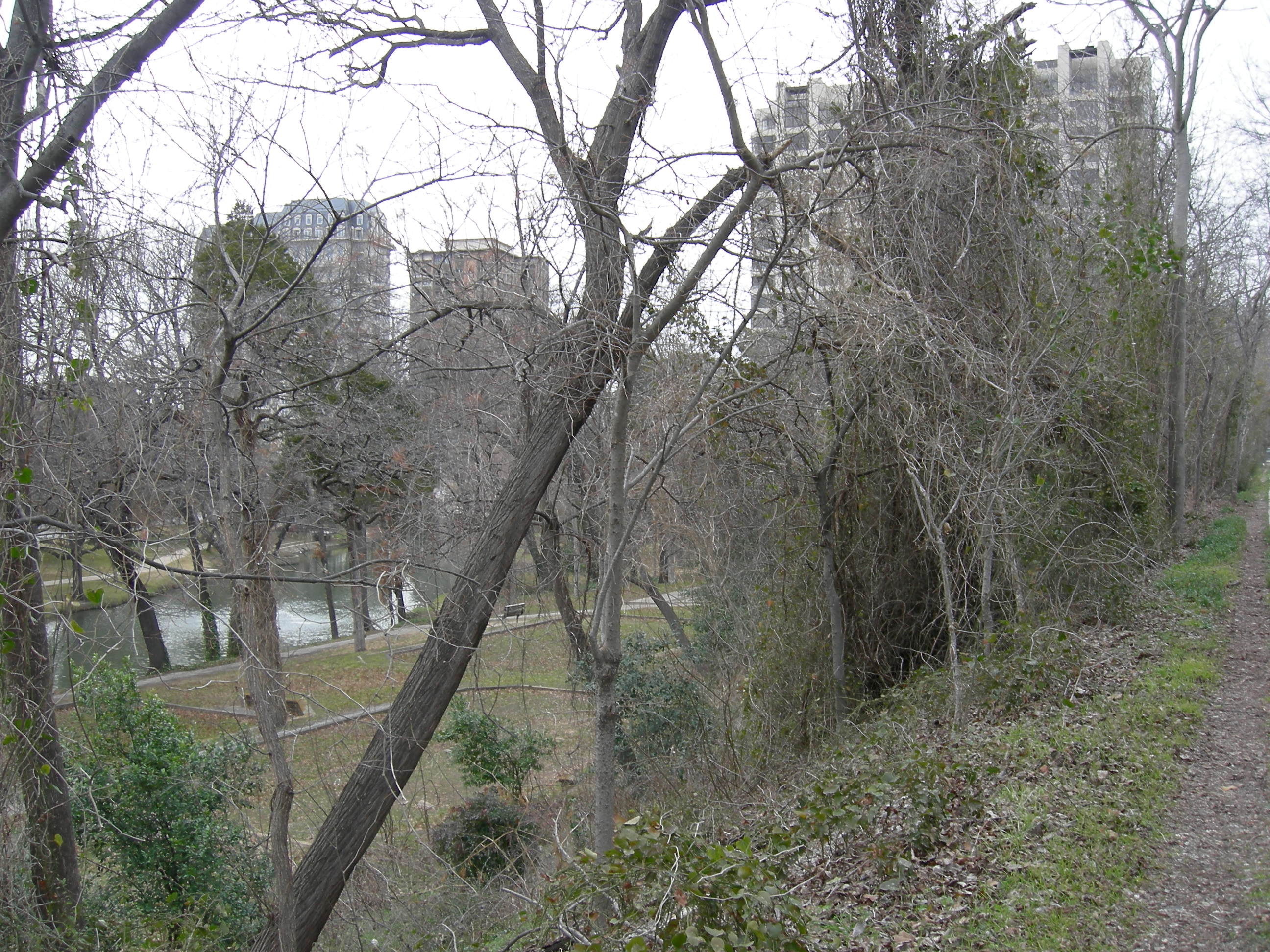 Turtle Creek Park seen from Katy Trail, Dallas, Texas.